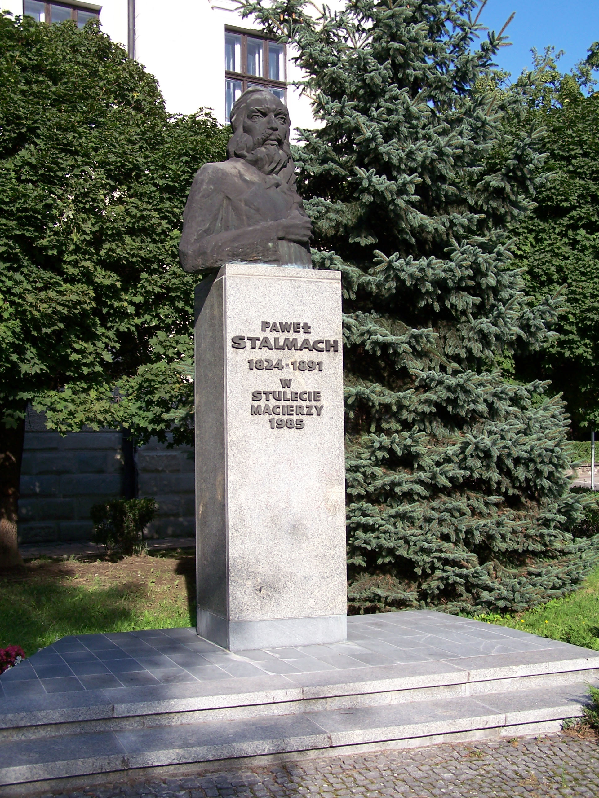 Statue of Paweł Stalmach in front of Antoni Osuchowski High School in Cieszyn, Poland.